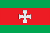 Flag of Zdolbuniv Raion